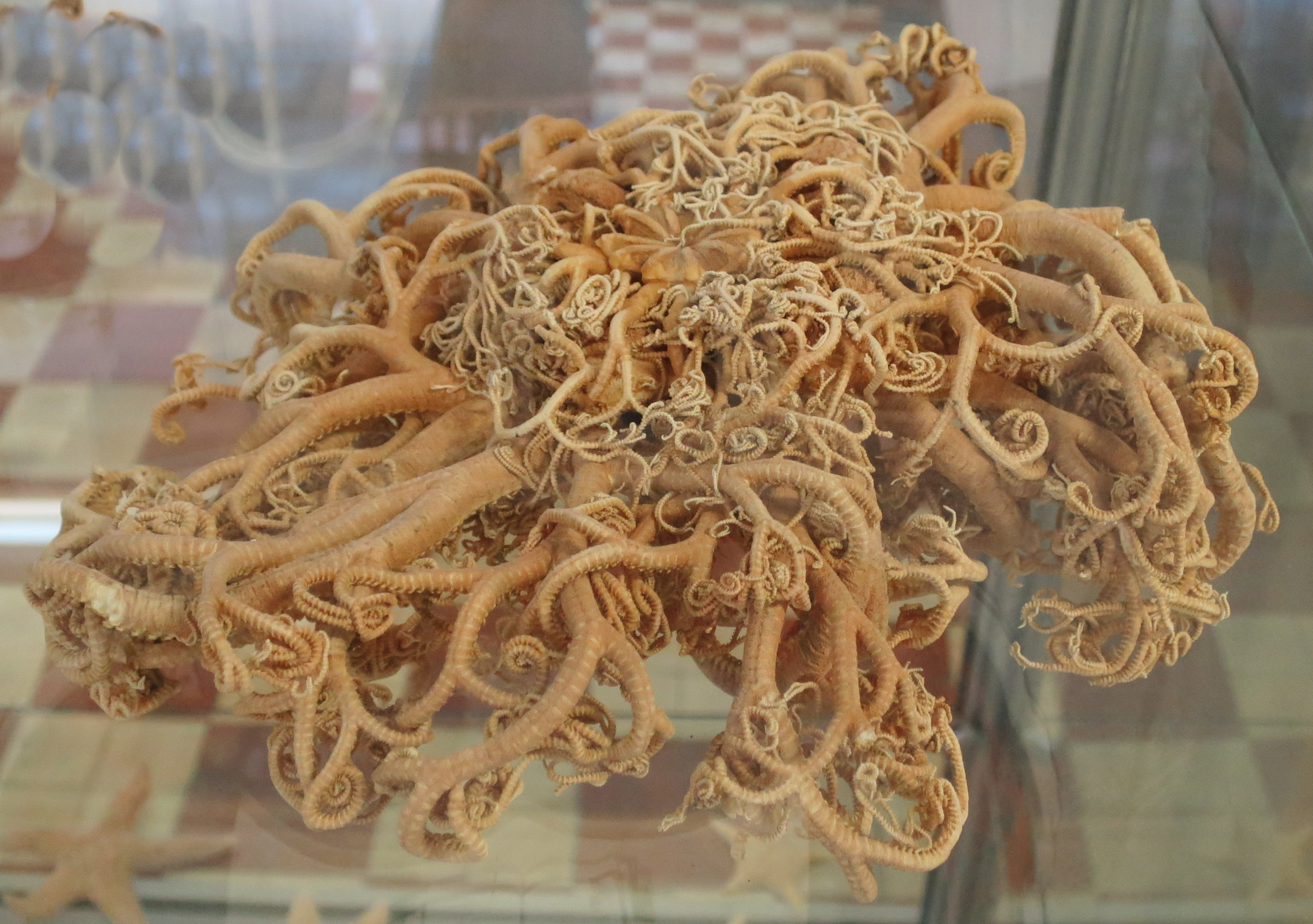 Gorgonocephalus eucnemis, Murmansk Regional Museum